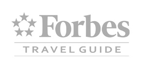 Logo for Forbes Travel Guide